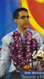 Pritam Singh at a rally of the Workers' Party of Singapore for the Singaporean general election, 2011, at Serangoon Stadium, Singapore.